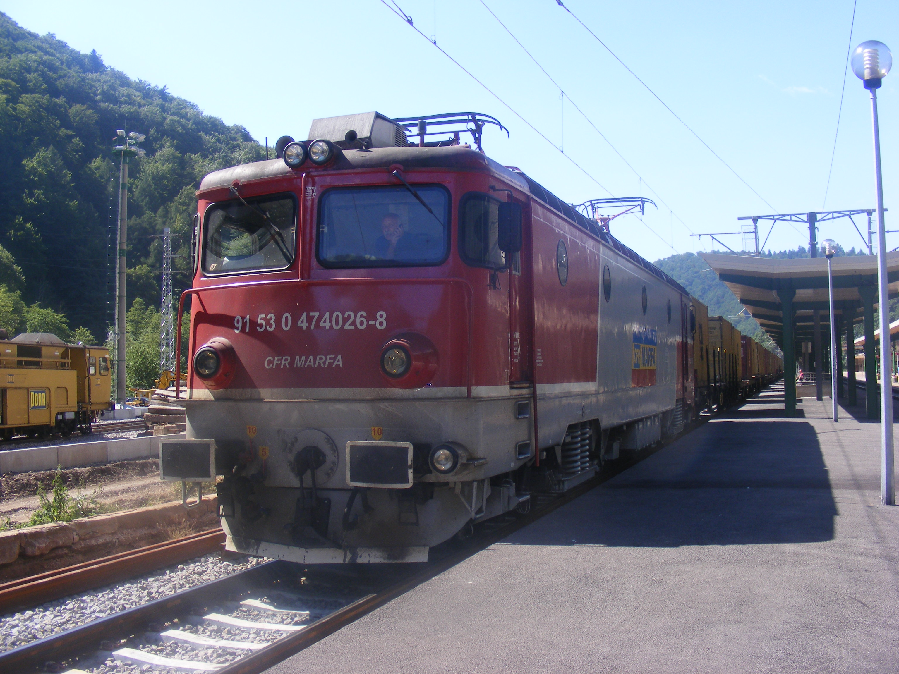 CFR 474 026 in the Sinaia railway station. Notice the track works going on at the time the picture was taken